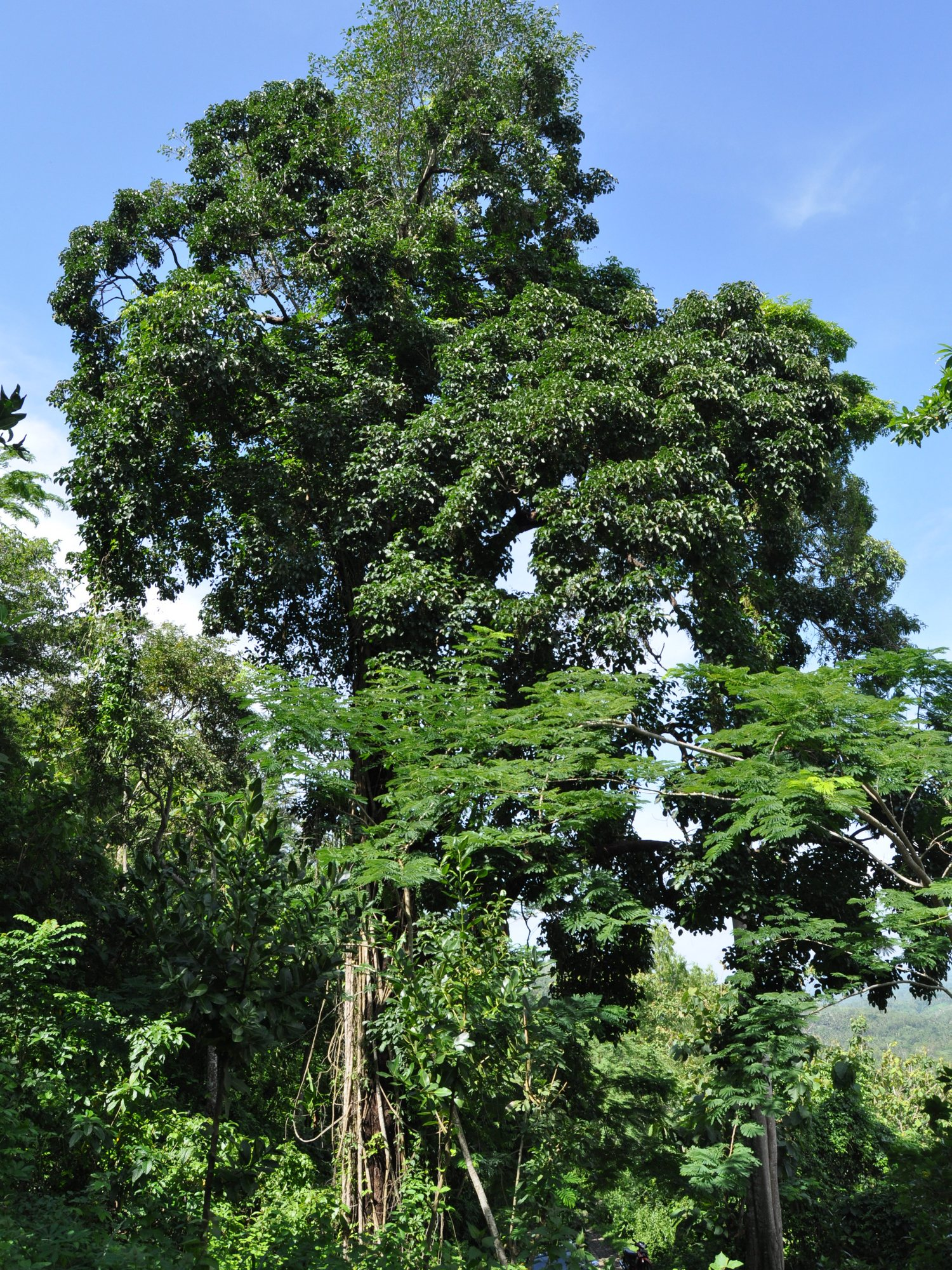 Habits of Bischofia javanica; from Blitar, East Java, Indonesia. Strangling by figs (Ficus sp.).